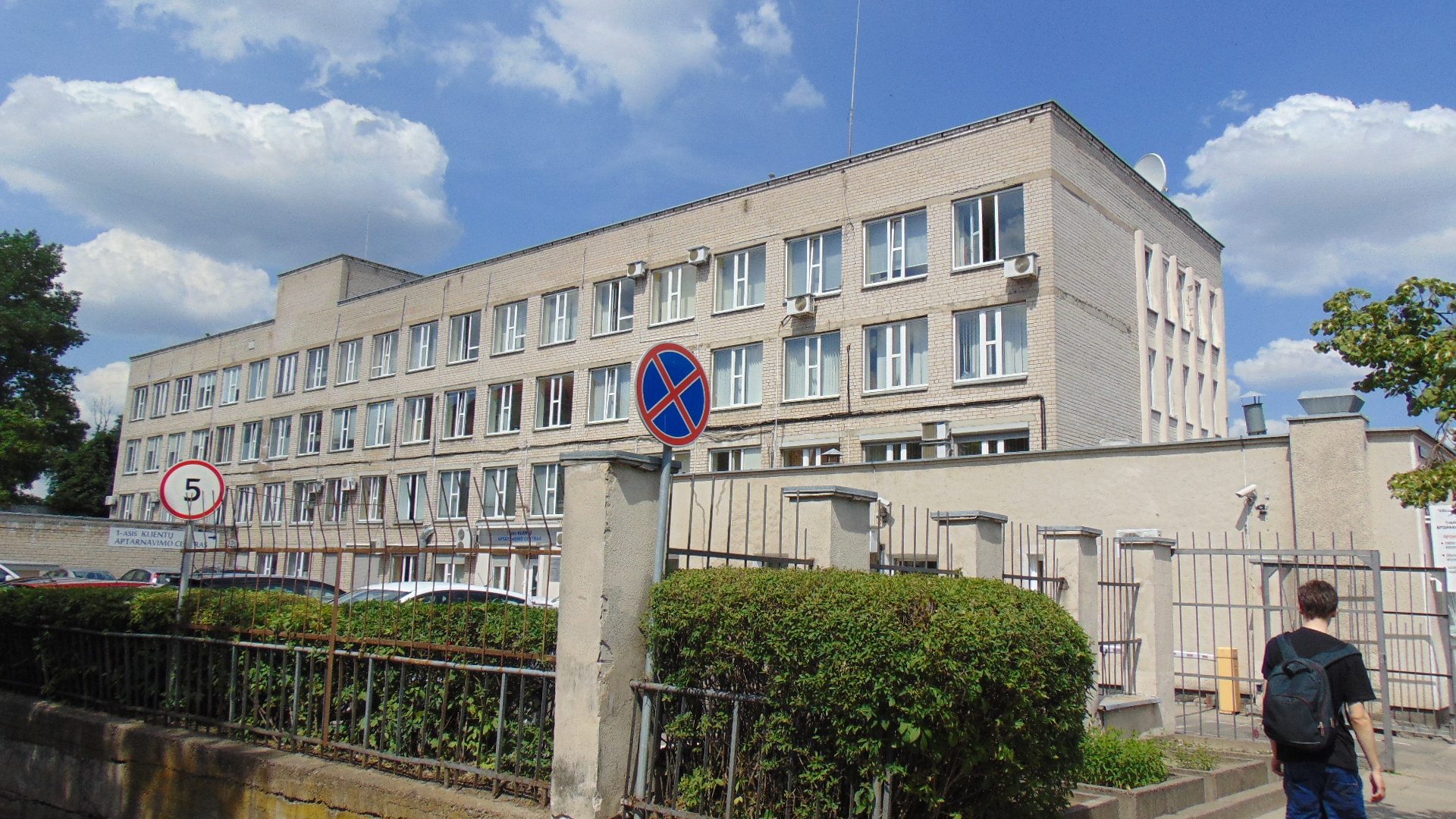 TV studio in Smolensko Street